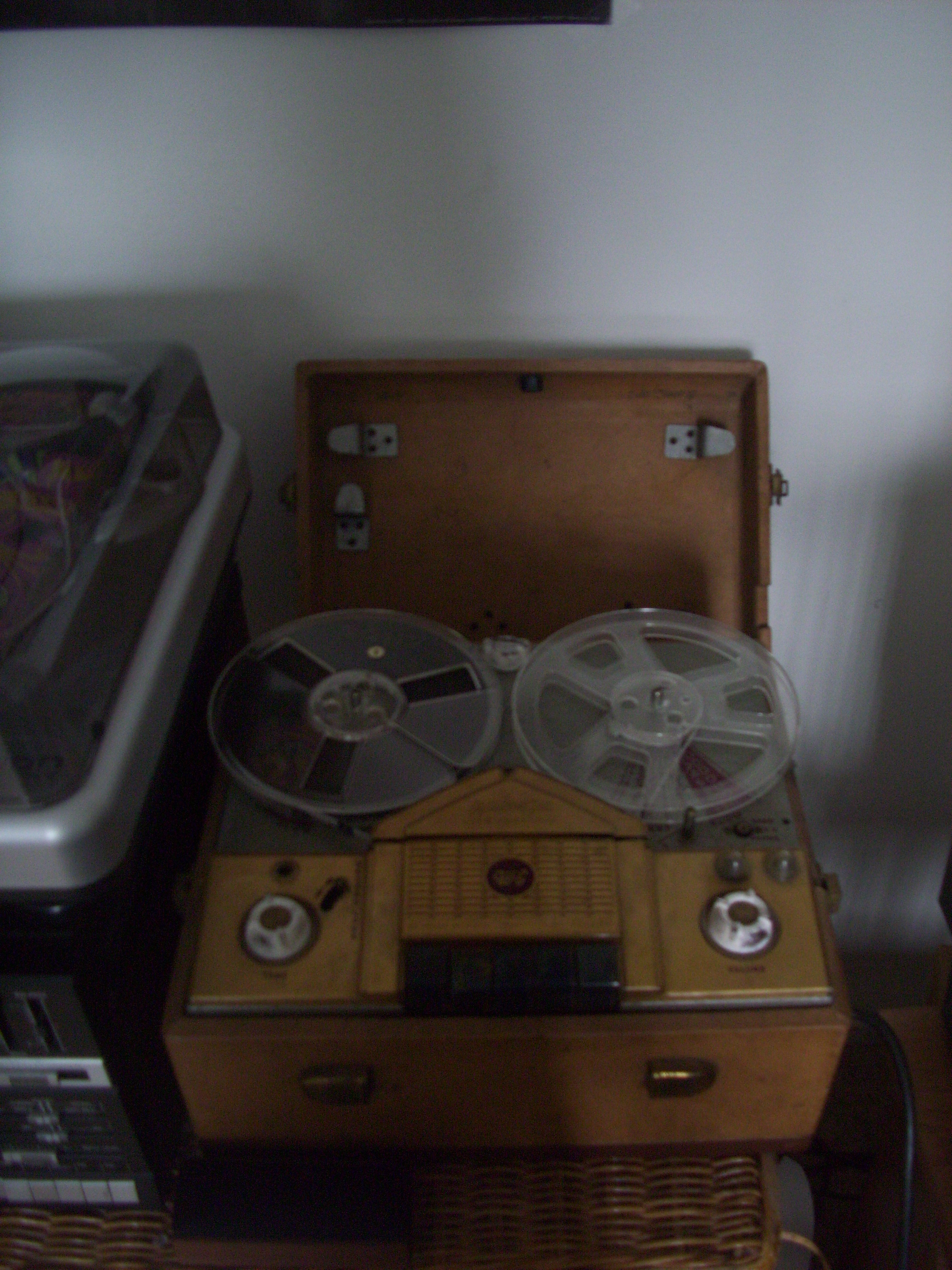 Wilcox-Gay reel-to-reel player, built between 1940's-mid 1950's